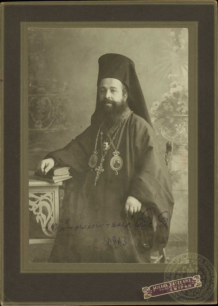 Arsenius of Strumica